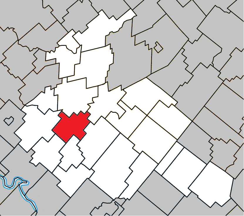 Location of Saint-Albert, Quebec within Arthabaska Regional County Municipality.